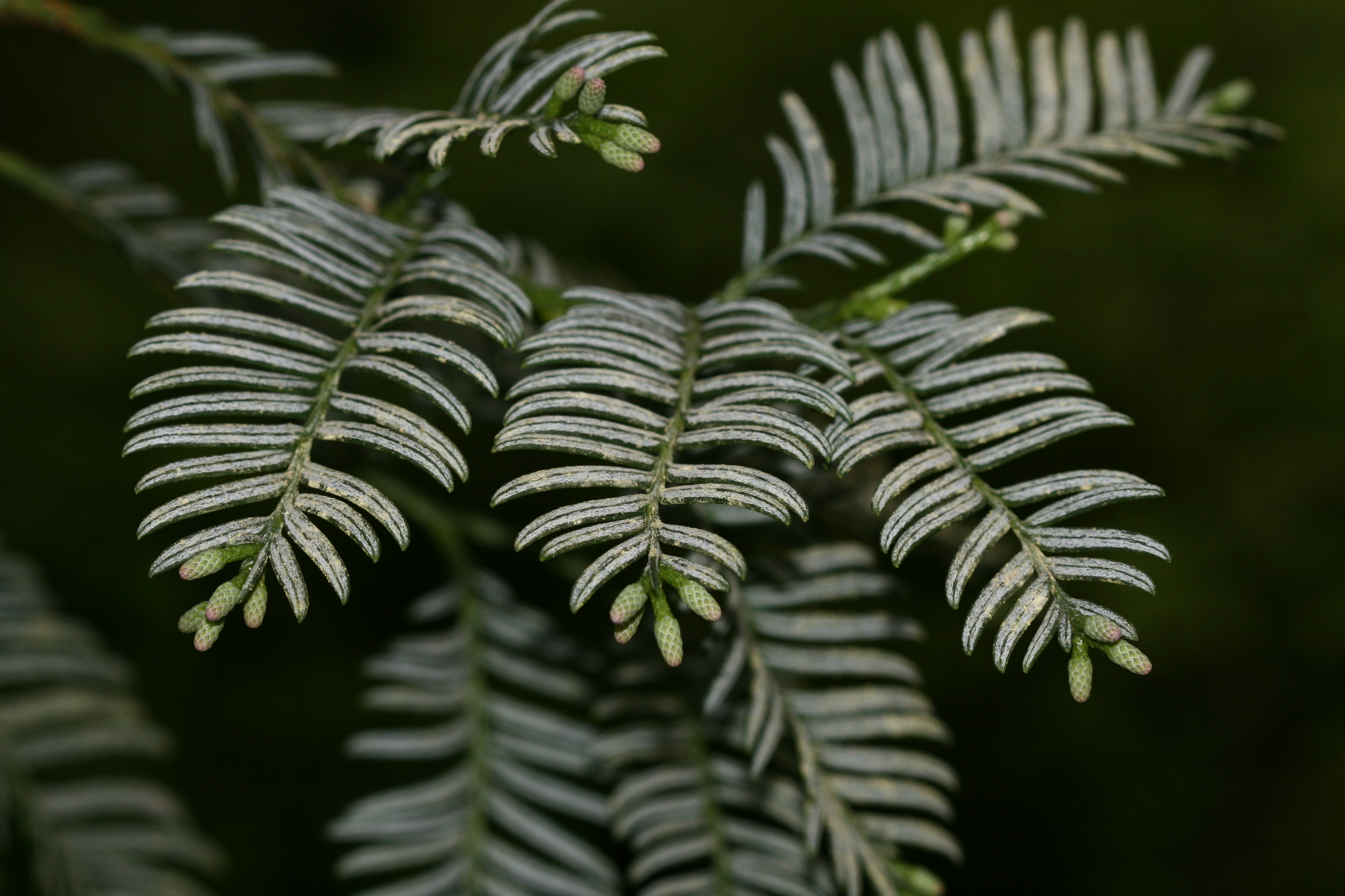 Conifer found only on the island of New Caledonia. Royal Botanic Gardens, Edinburgh, Scotland